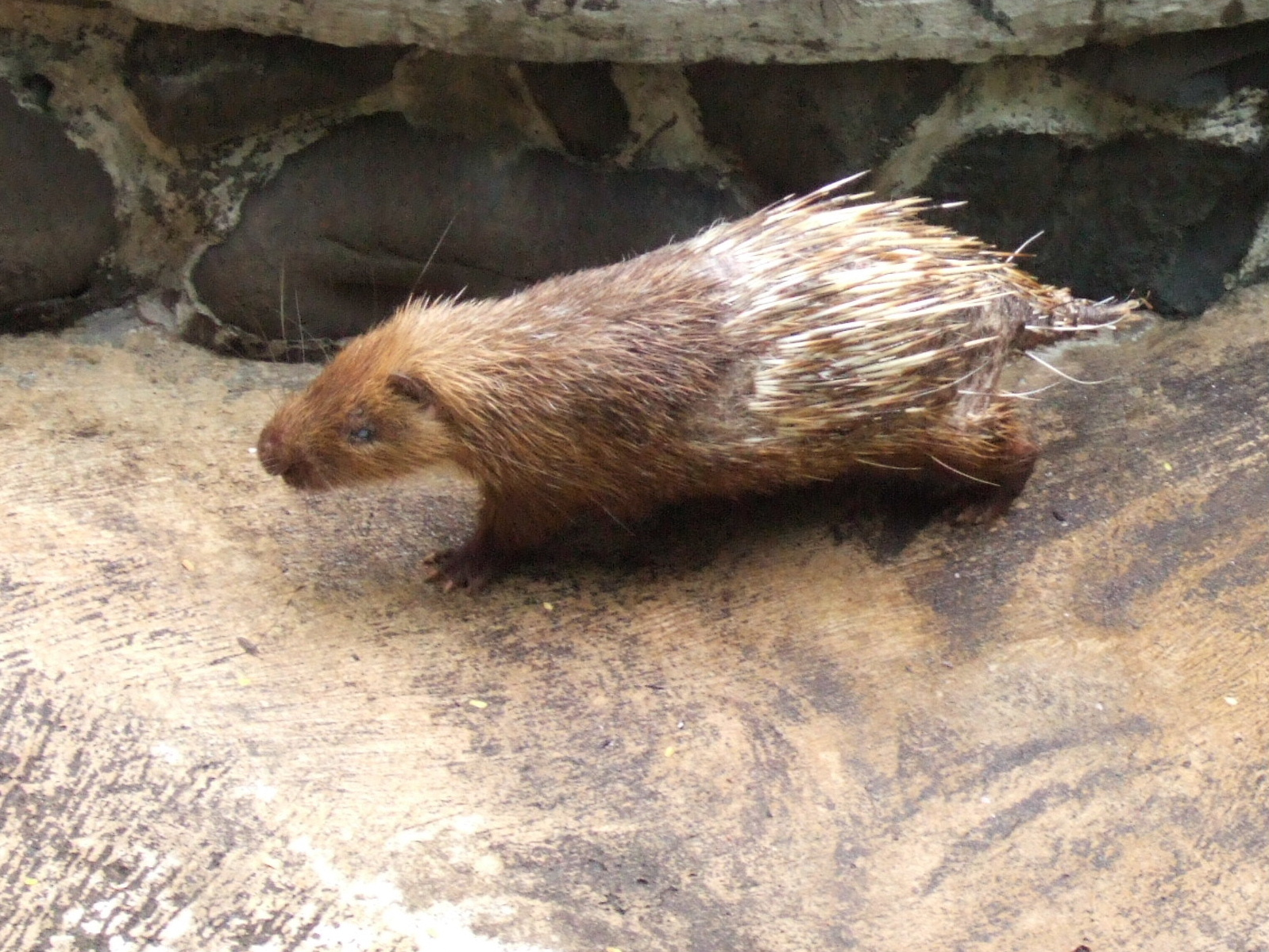 Sunda Porcupine (Hystrix javanica), Ragunan Zoo, Jakarta, Indonesia.